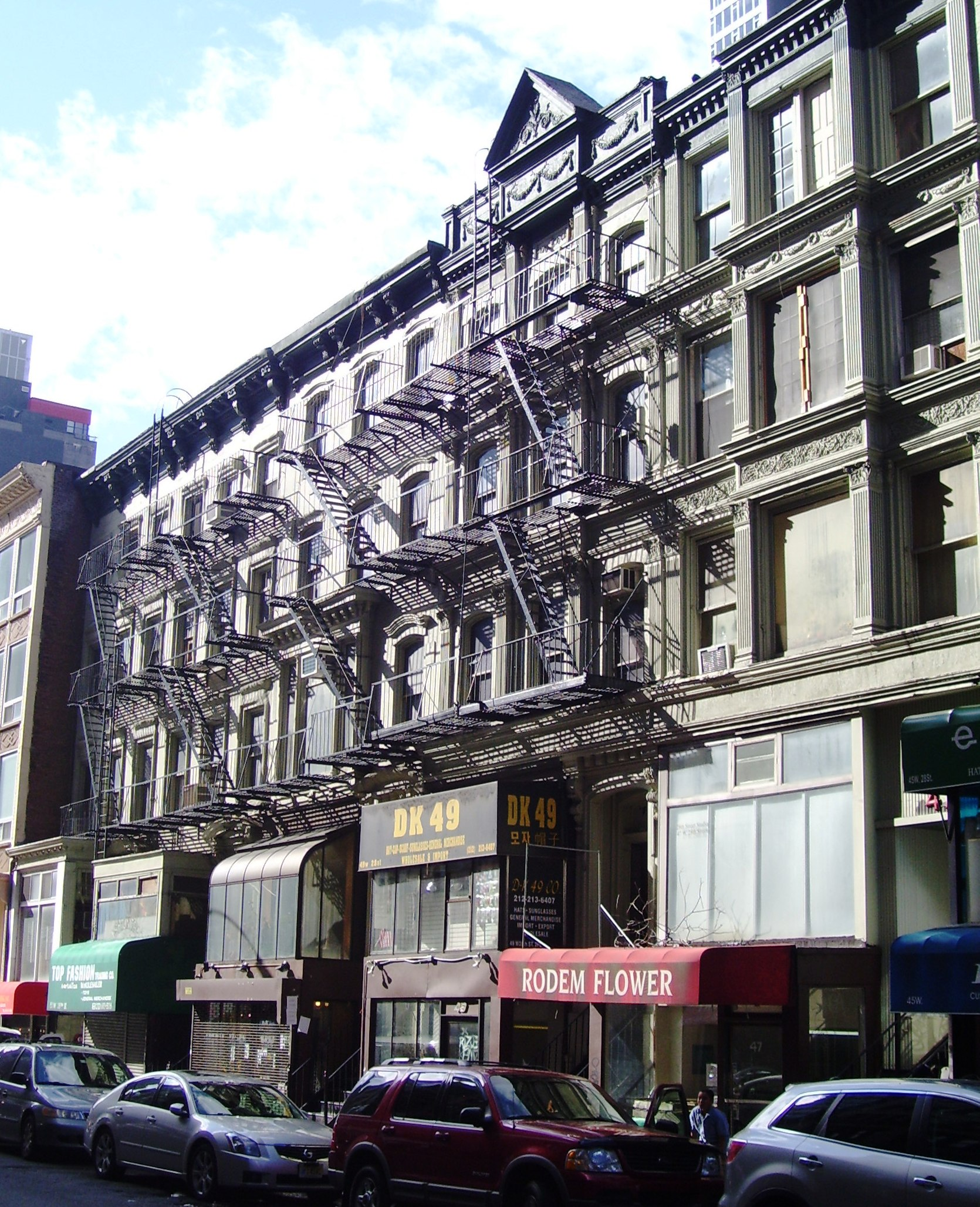 47-55 West 28th Street between Broadway and Sixth Avenue in the NoMad neighborhood of Manhattan, New York City are five seperate buildings with similar facades, all built c.1920. (Source: NYC GIS map)